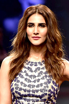 Vaani Kapoor walked the ramp at the Lakme Fashion Week 2018, Feb 5.